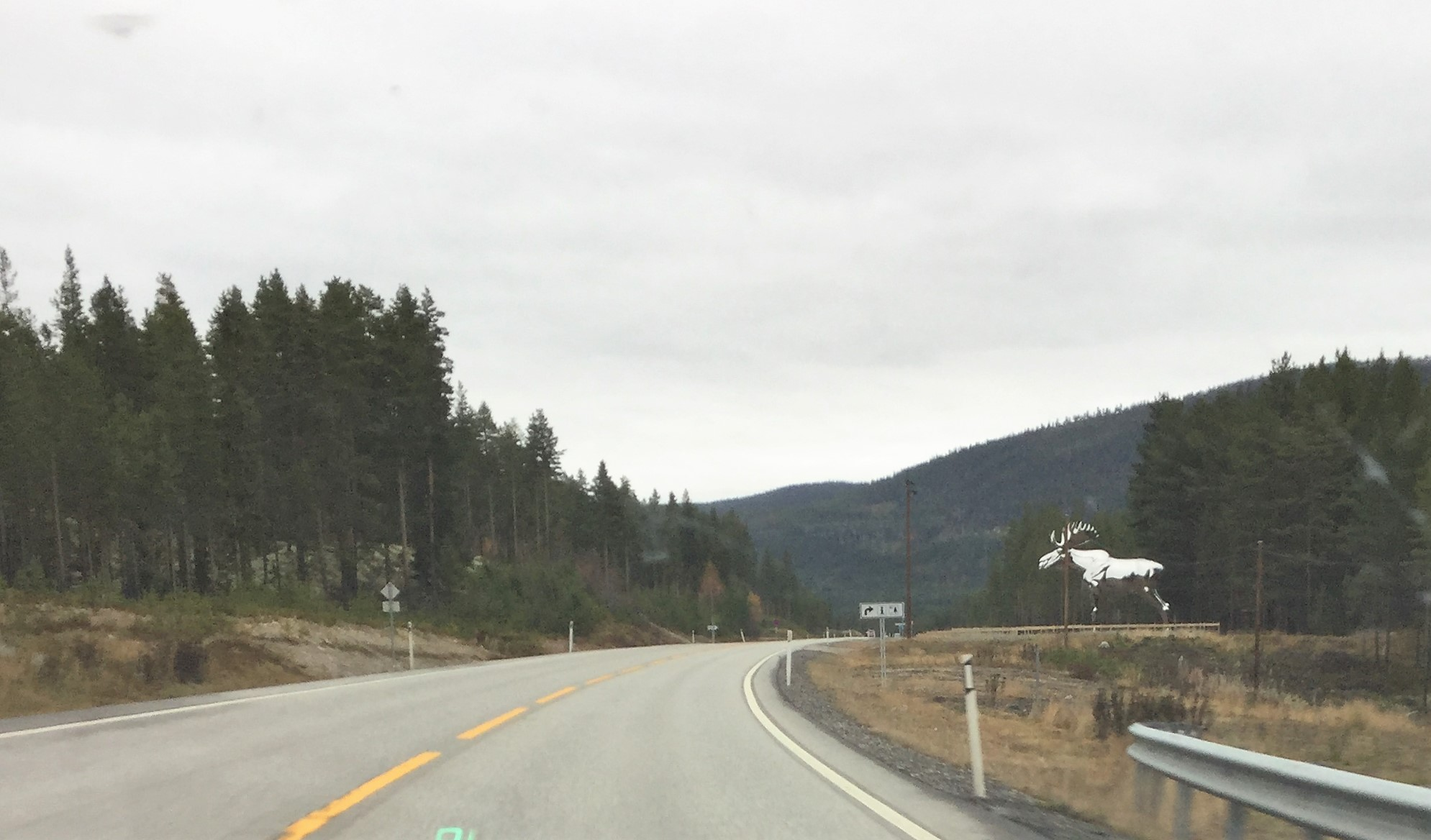 The sculpture Storelgen ('The giant moose') along Riksvei 3 in Stor-Elvdal, Norway